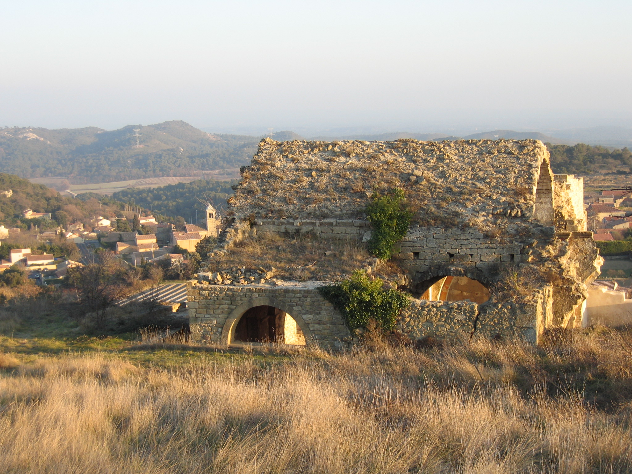 Saint-Jacques Church in Vernègues, France. It was destroyed during the 1909 Provence earthquake.